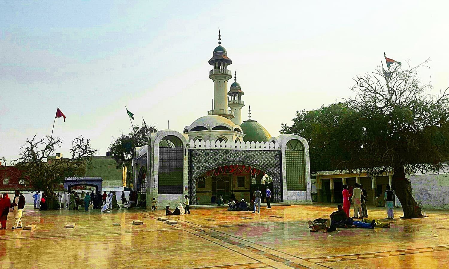 Shrine of Bulleh Shah This is a photo of a monument in Pakistan identified as the PB-P-48